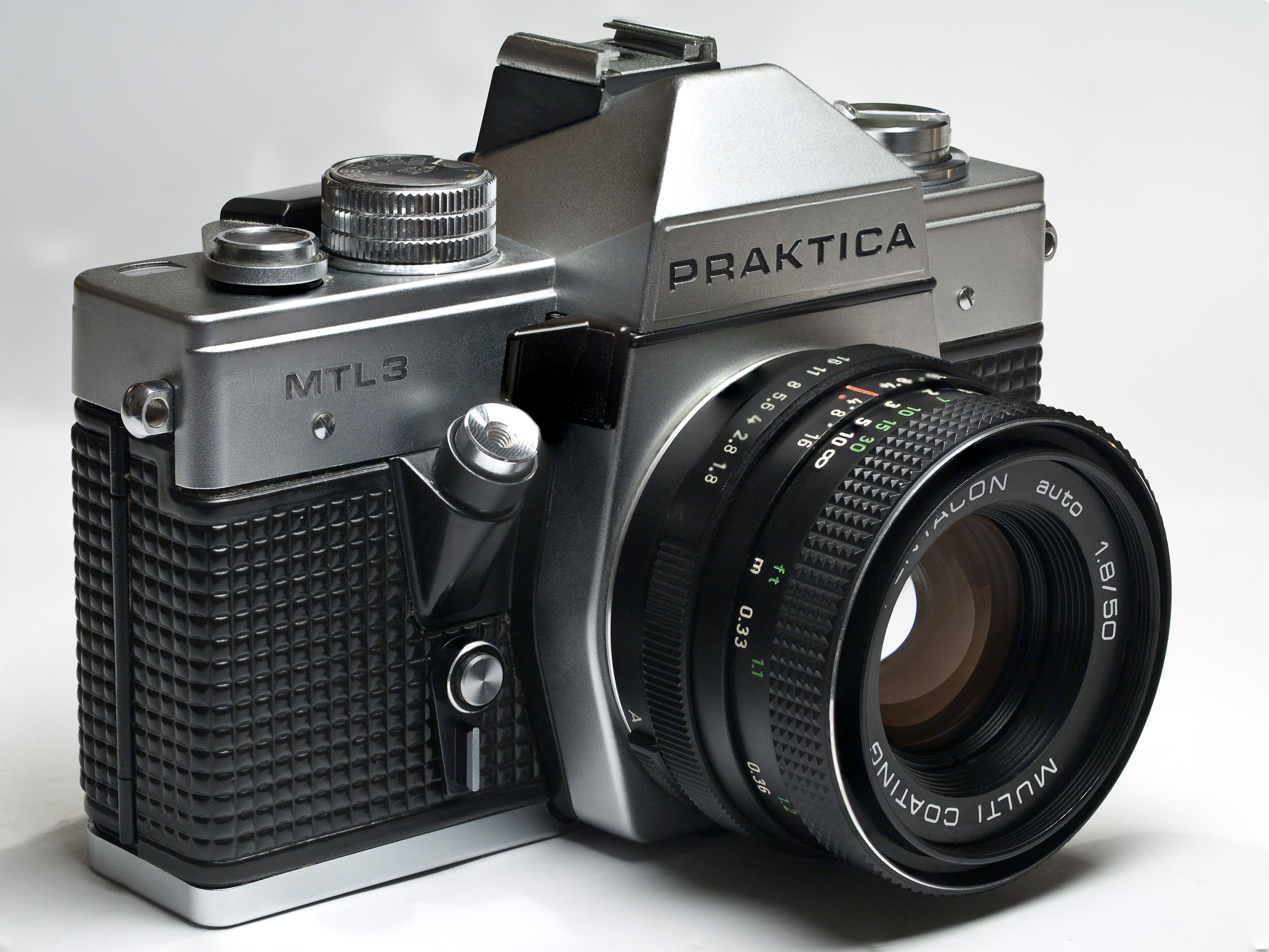 Picture of a Praktica MTL3 SLR camera. (1978-1984) (This picture was made using focus stacking and is build up from 9 photos with different focus points)